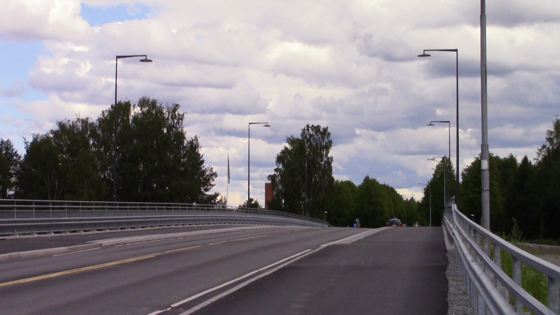 Reconstructed Friitala bridge in Ulvila, Finland. The bridge is crossed by connecting road 2442.